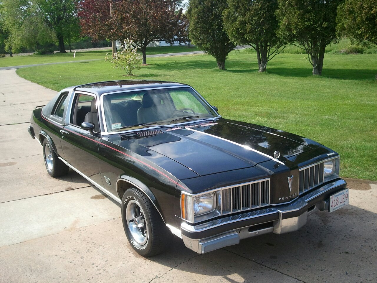 1978 Pontiac Phoenix (Note: Oldsmobile Rally rims)